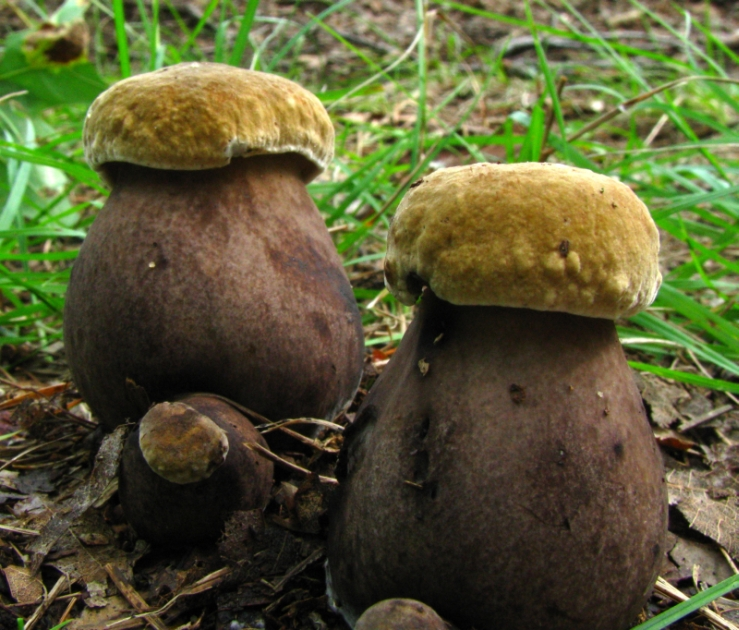 Fruit bodies of the bolete mushroom Tylopilus atronicotianus. Specimens photographed in Babcock State Park, Fayette Co., West Virginia, USA.